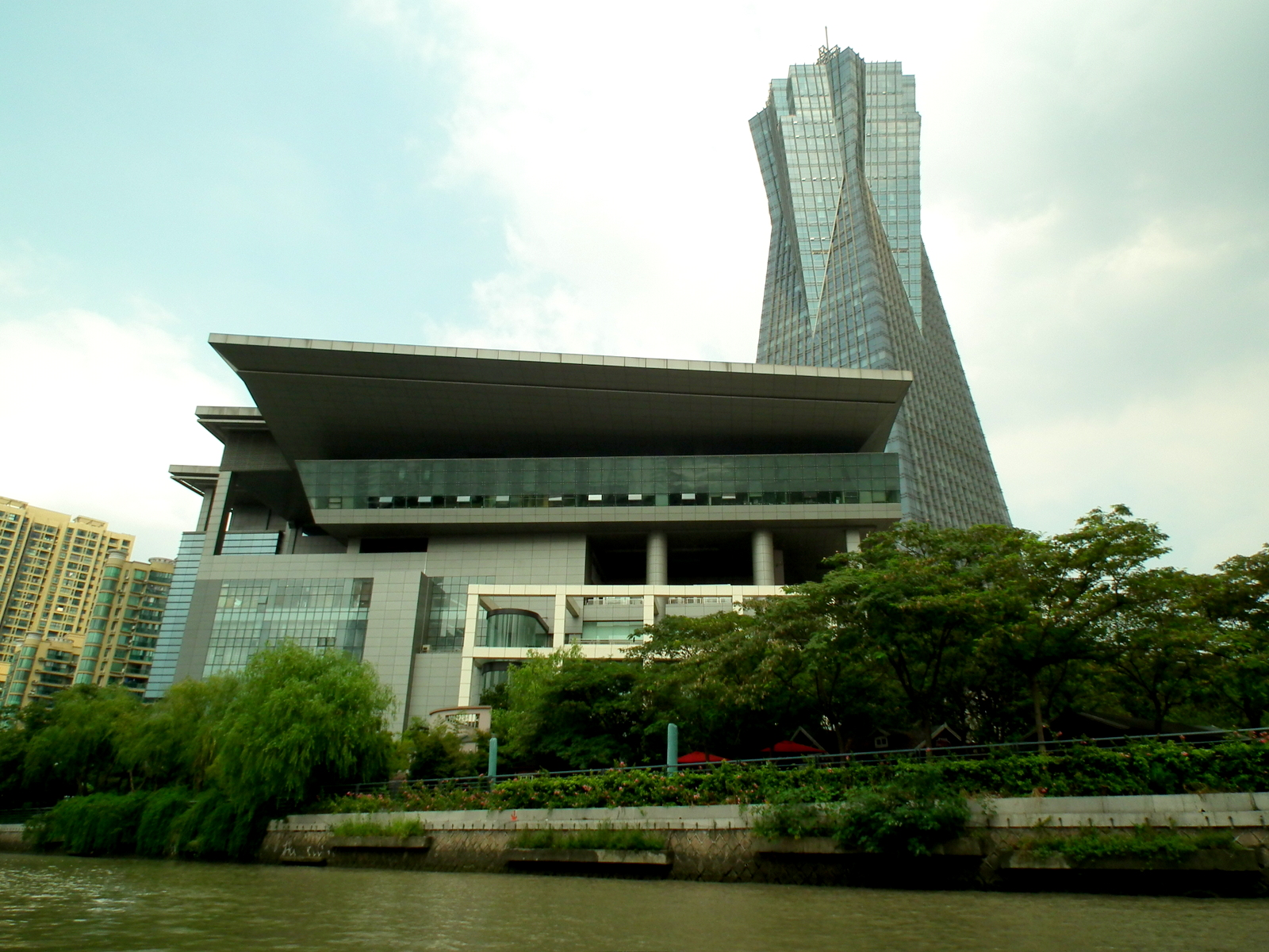 Located at Hangzhou, China.